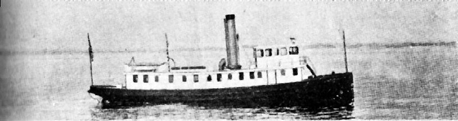 Photo from the 1914 edition of Jane's Fighting Ships.